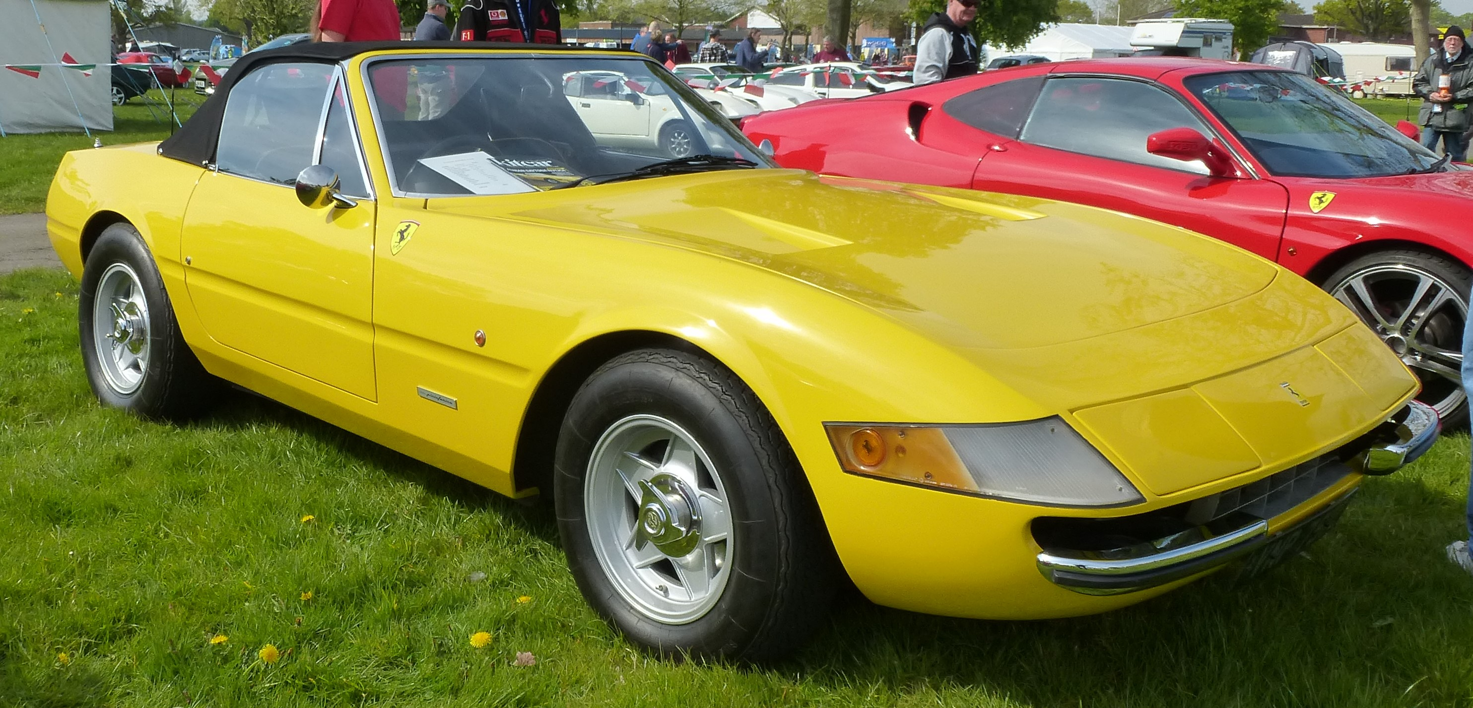 EG Arrow